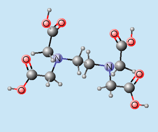 3D Chemical structure of Ethylenediamine tetraacetic acid (EDTA). Made with Corina Software